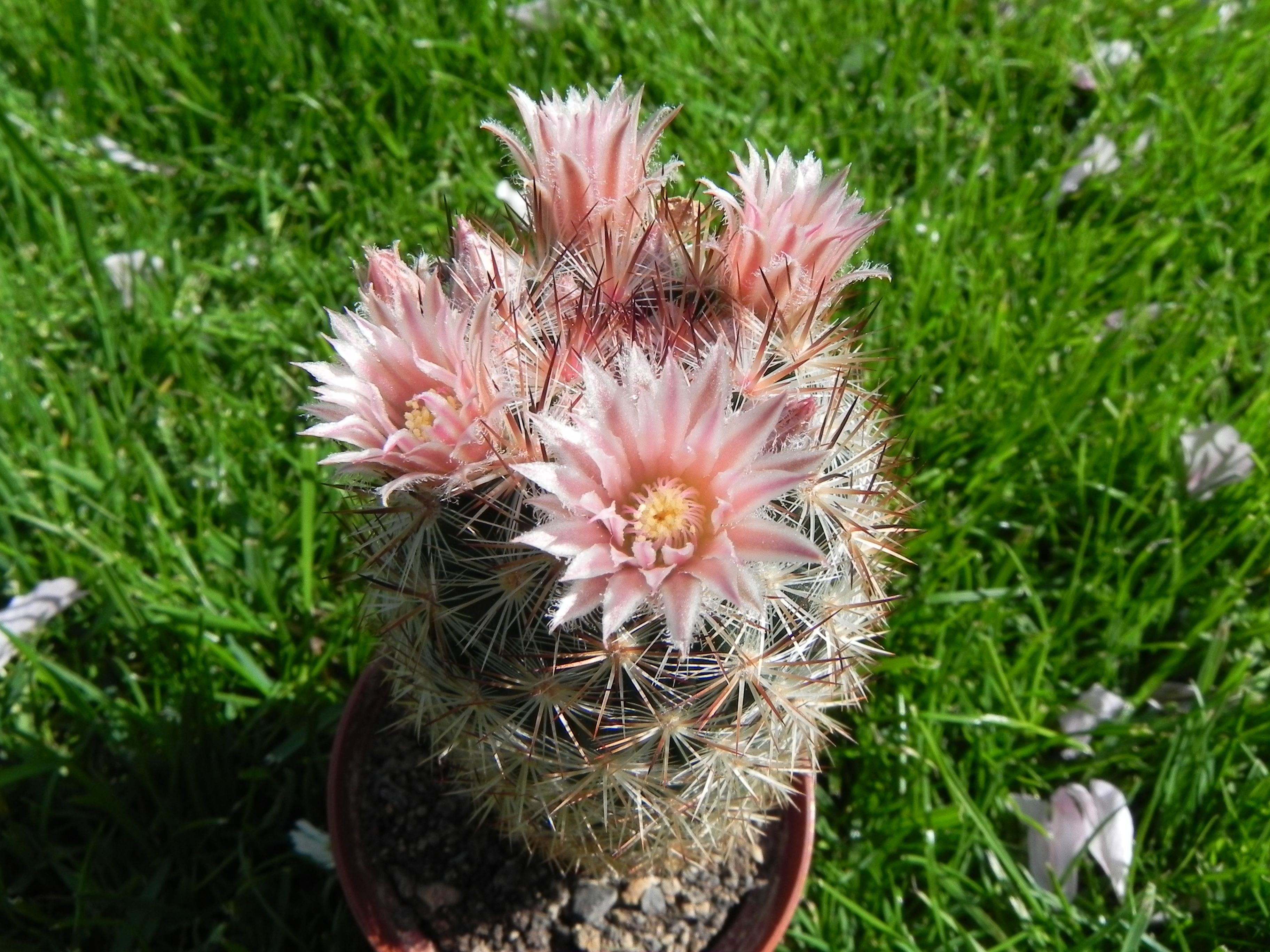 Photo of the cactus Escobaria orcuttii Boed., taken from a plant in cultur, with flowers.